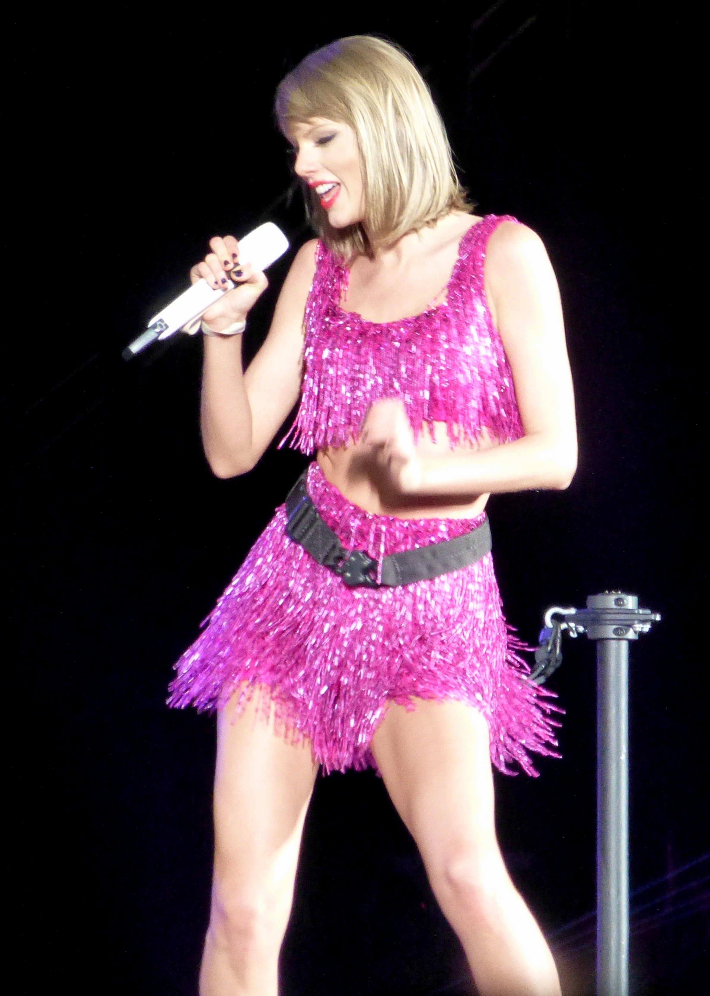 Taylor Swift 1989 Tour at Ford Field in Detroit, 5/30/15